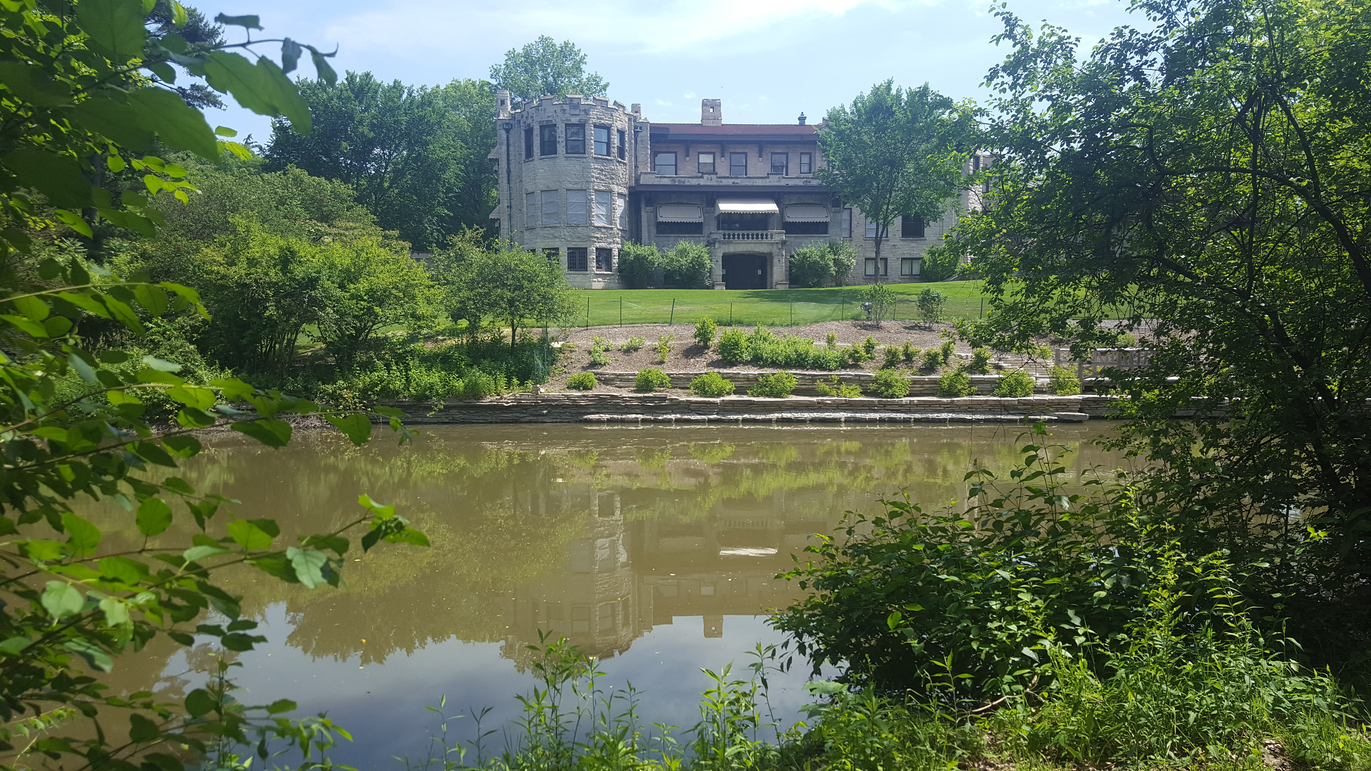 Fair Lane from trail on opposite side of Rouge River